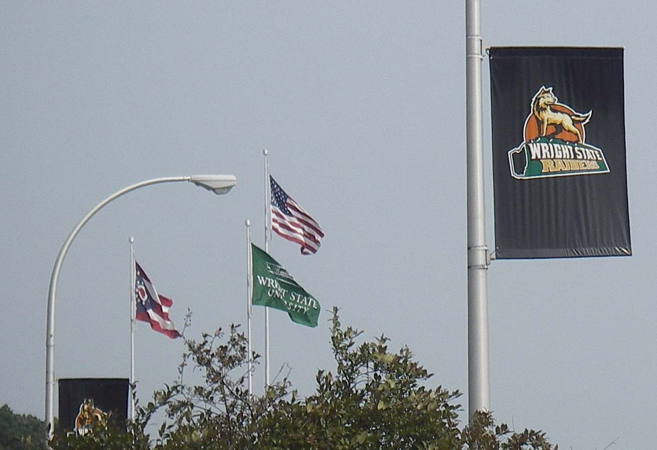 Raiders flag at the Wright State University main campus.